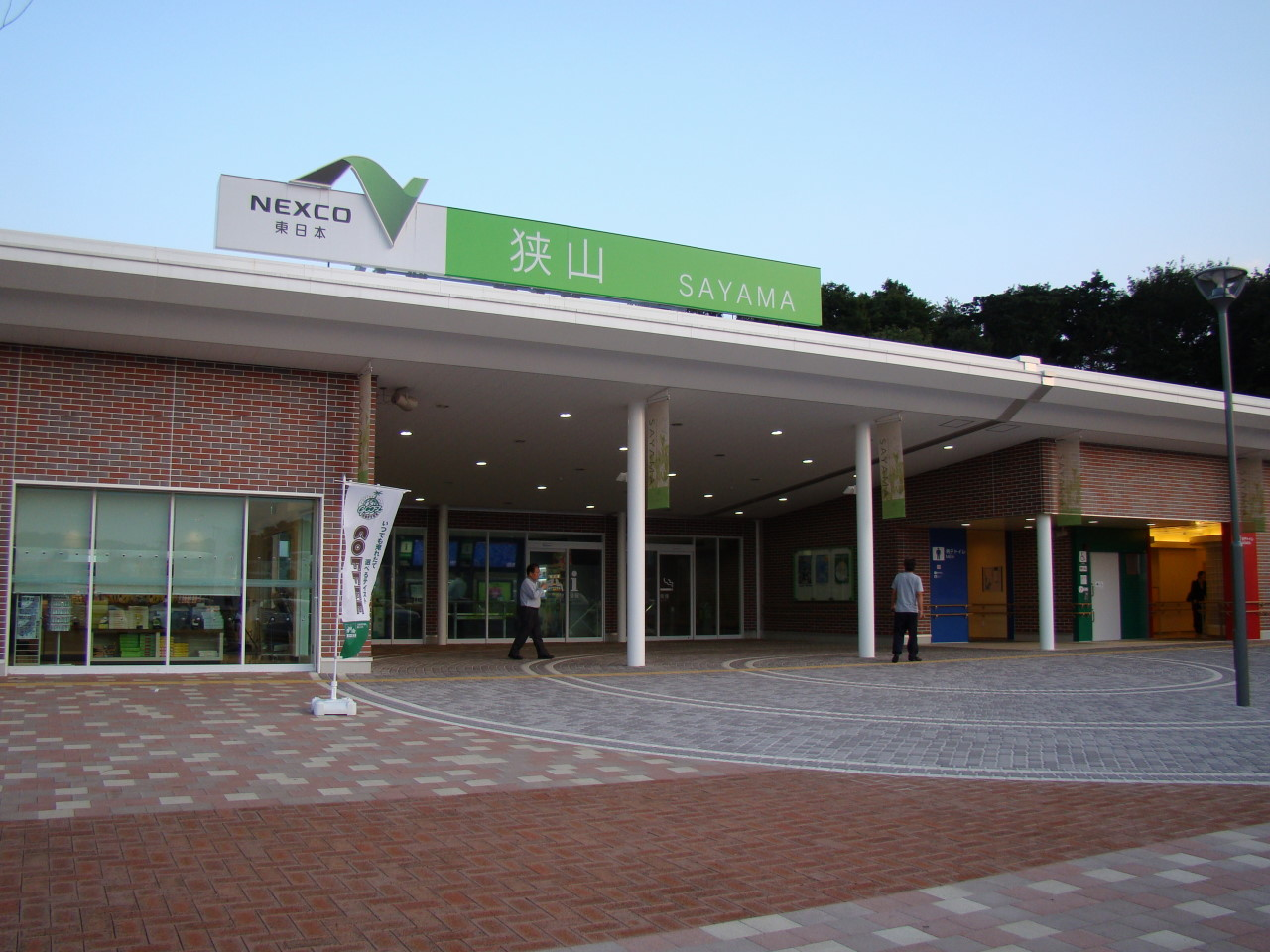 Sayama Parking Area in Sayama City, Saitama Prefecture, Japan, on the Ken-O Expressway westbound line